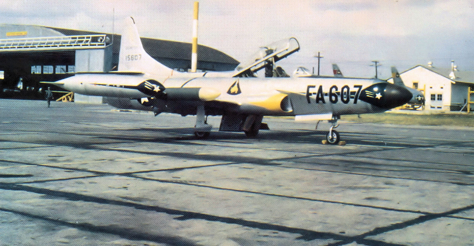 354th Fighter-Interceptor Squadron Lockheed F-94C-1-LO Starfire 51-5607, 1952, Long Beach Airport, California